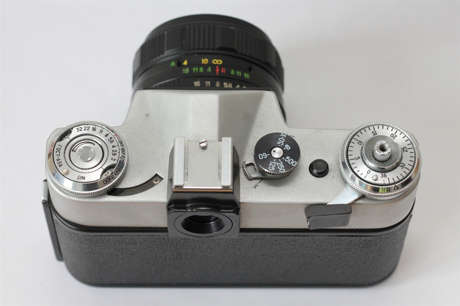 Zenit-E